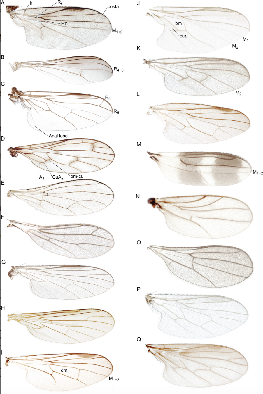 Photographs of right wing. (A) Atelestus pulicarius; (B) Neurigona suturalis; (C) Empis vitripennis; (D) Clinocera nivalis; (E) Chelipoda vocatoria; (F) Hemerodromia sp.; (G) Hilara litoriea; (H) Trichopeza longicornis; (I) Hybos grossipes; (J) Bicellaria sulcata; (K) Leptopeza flavipes; (L) Oedalea stigmatella; (M) Tachydromia umbrarum; (N) Drapetis parilis; (O) Symballophthalmus fuscitarsis; (P) Trichina bilobata; (Q) Ragas unica. Abbrevations: h, humeral crossvein; Rs, radial sector; r‐m, radial‐medial crossvein; M1, first medial vein; M1+2, first and second medial vein (unbranched); R4, fourth radial vein; R5, fifth radial vein; R4+5, fourth and fifth radial vein (unbranched); A1, anal vein; CuA2, second anterior branch of cubital vein; bm‐cu, basal medial‐cubital crossvein; dm, discal medial cell; bm, basal medial cell; cup, posterior cubital cell (anal cell).